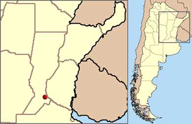 Situation of the city of Rosario, Santa Fe Province, Argentina. This map violates legal regulations Argentina (Ley de la Carta (Law No. 22963) hej lars